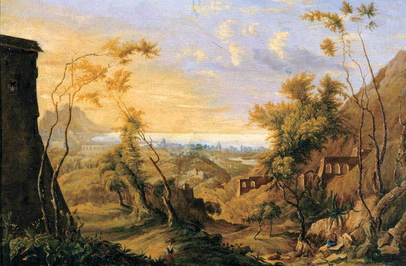 Painting "Cava dei Tirreni" by Ignazio Lavagna Fieschi of Reggio Calabria.